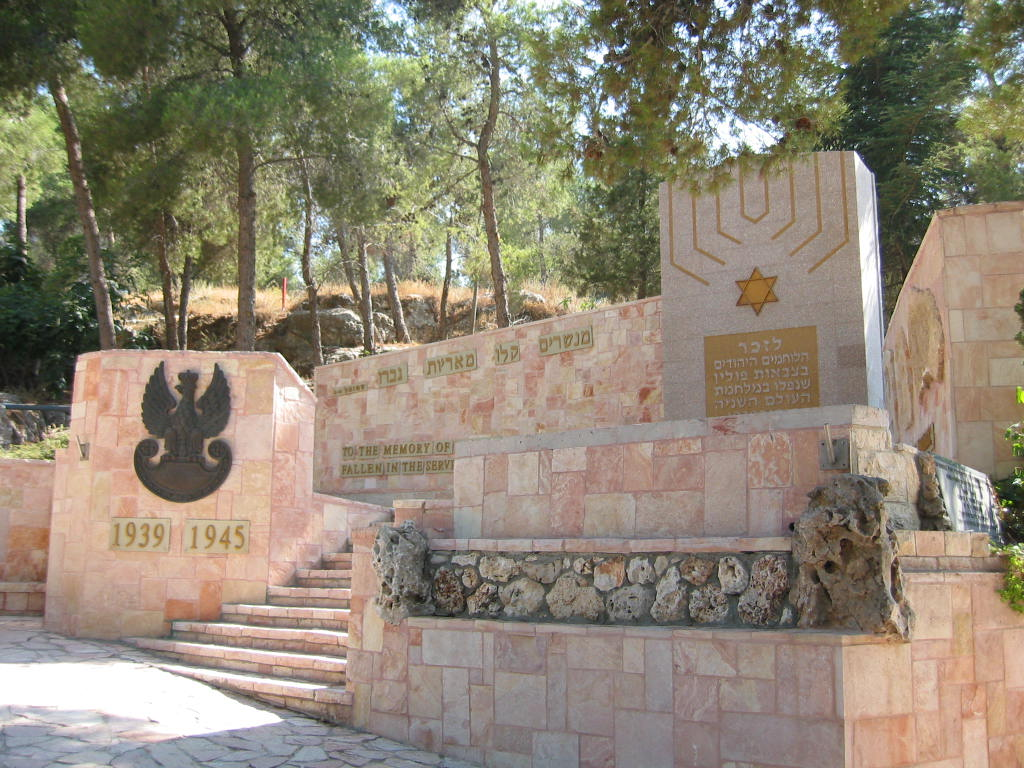 Jerusalem, Monument in memory of Jewish Soldiers in Polish Army 1939-1945, Israel.